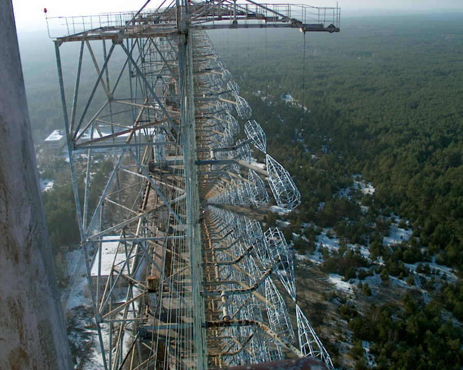 Antenna of the Duga-1 (Дуга-1) over-the-horizon (OTH) radar system, Chernobyl, Ukraine, part of the Soviet ABM early-warning network. It is known in the West by the NATO designation "Steel yard". Its powerful signal, called the "Woodpecker" because it sounded like a tapping noise in radio receivers, was notorious for interfering with radio and television transmissions. The pairs of cylindrical cages at right are the driven elements, fed at their center by vertical feed lines. Behind them is a vertical reflector screen of wires, just visible in center.